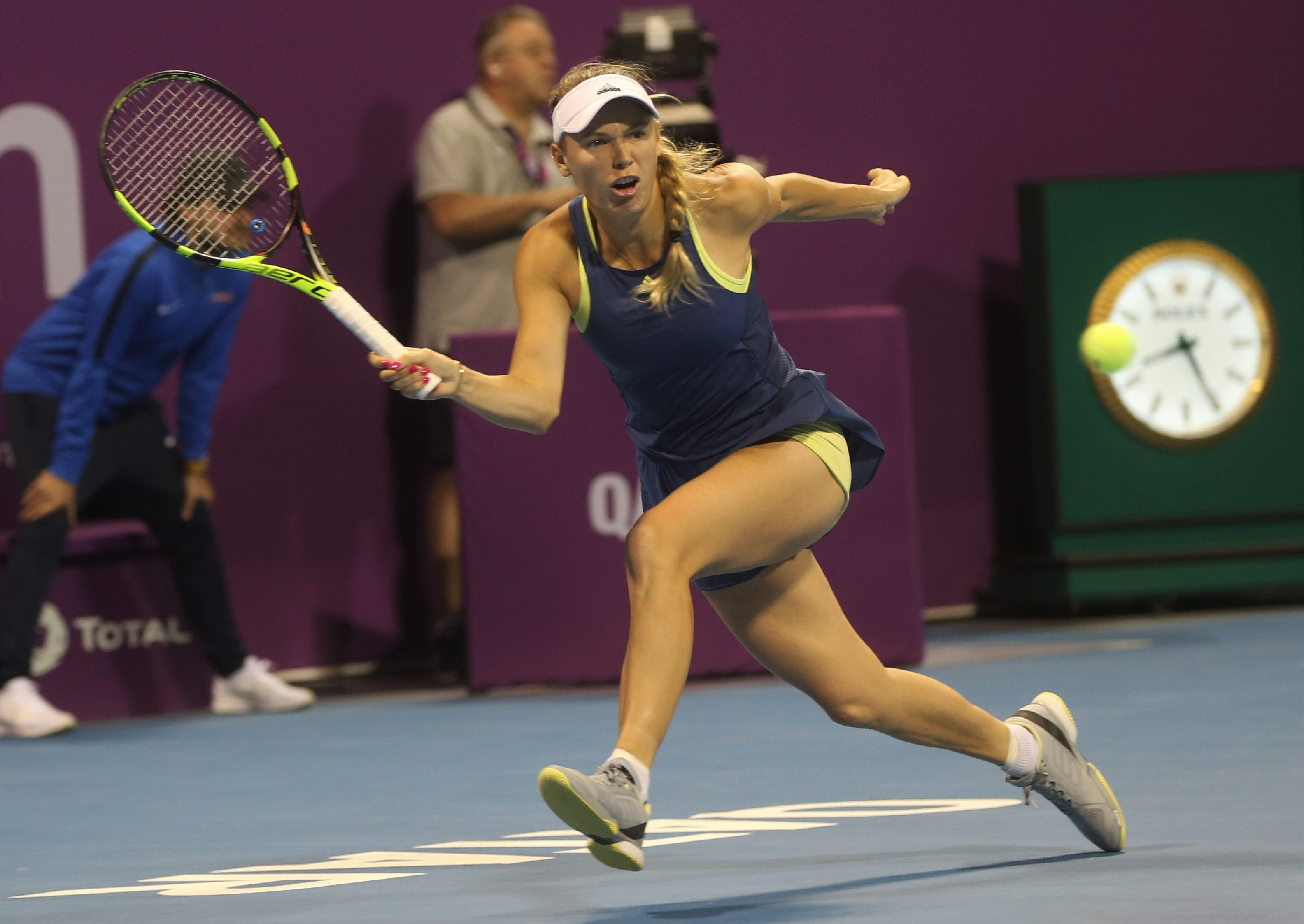 Caroline Wozniacki IN action at Qatar Total Open (Photo by Hanson K Joseph)